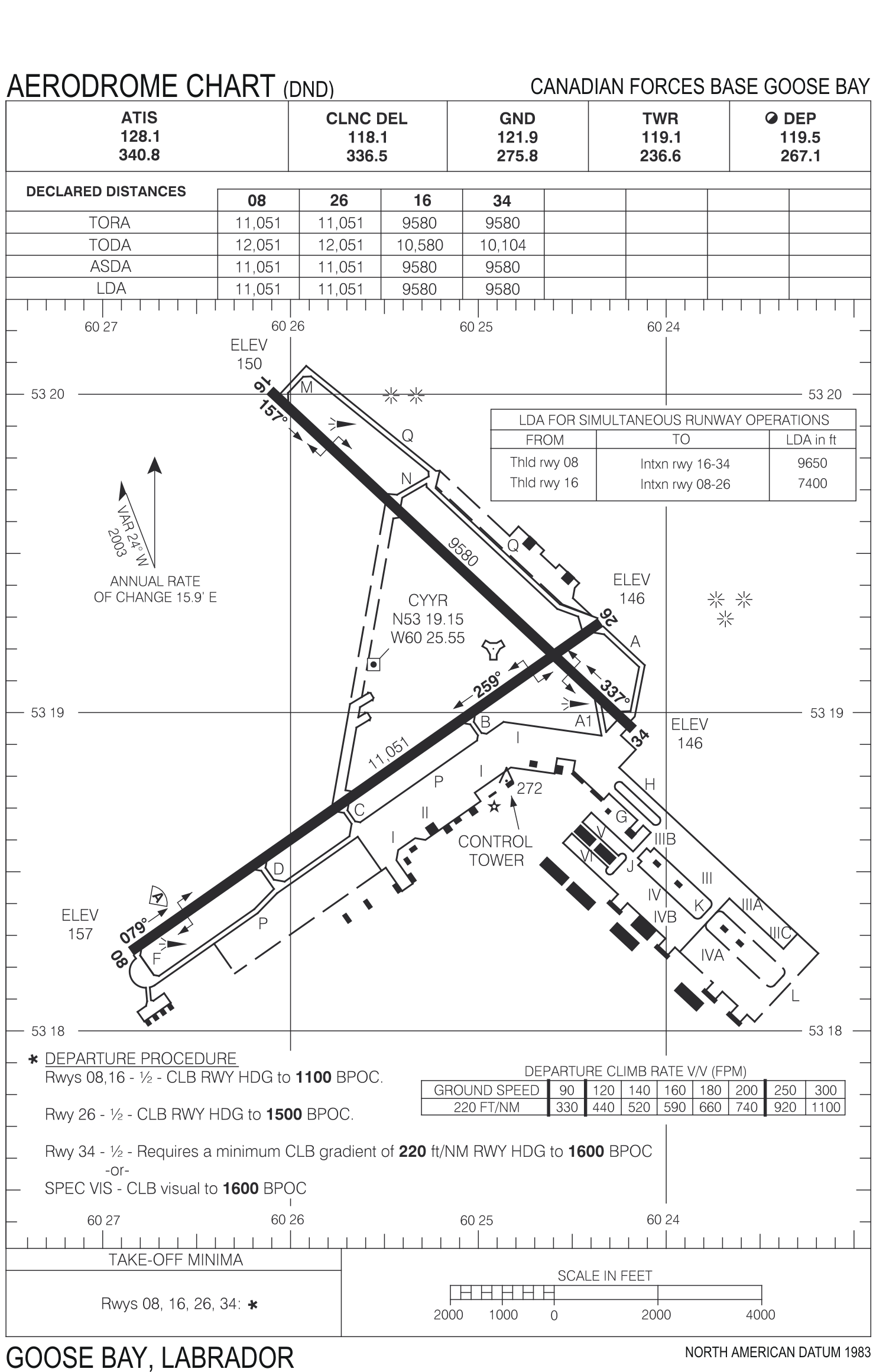 Aerodrome chart, Canadian Forces Base Goose Bay